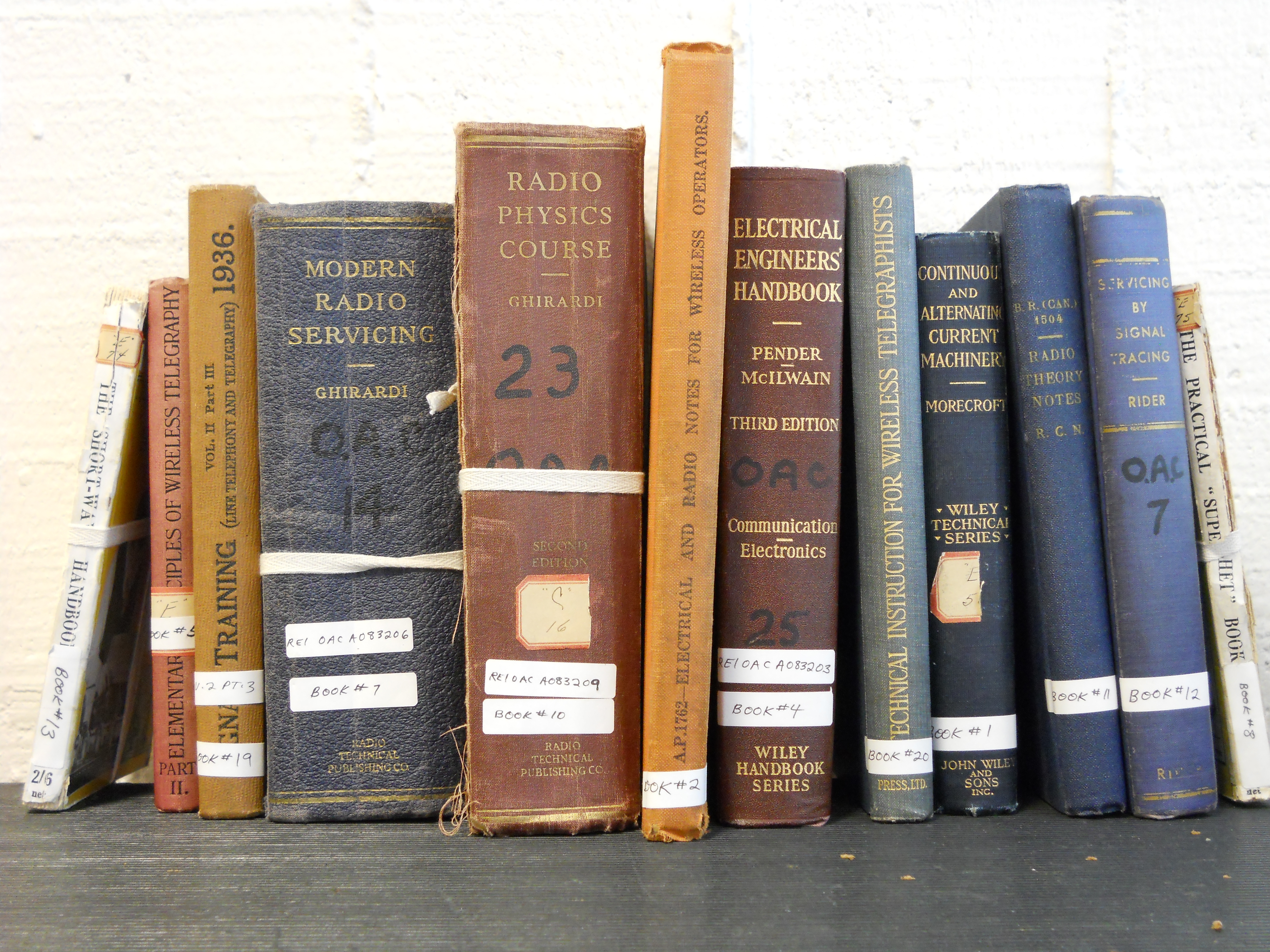 These books form most of the U of G Archives collection of the No. 4 Wireless School Reference Library. Several of them are from the Royal Air Force or Royal Canadian Navy. Most are about electricity, electrical apparatus, radio antennae, telegraphy, and radio direction finding (not radar). There are no books here about "Radar", which was top secret in 1941.Books courtesy of the University of Guelph, McLauglin Library, Archives and Special Collections. Citations for these books, from left to right: Robinson, E. H. (1930) The short-wave handbook, London: Cassell and Company Ltd. RE1 OAC A083212 Bangay, R. D. (1922) The elementary principles of wireless telegraphy, 2nd ed., London: Wireless Press Ltd. RE1 OAC A083204 Anonymous (1935-1936 1935) Signal Training, London: H. M. Stationery Office. RE1 OAC A083213 Ghirardi, A. A. (1935) Modern Radio Servicing, New York: Radio and Technical Publishing Co. RE1 OAC A083206 Ghirardi, A. A. (1933) Radio Physics Course, 2nd ed., New York: Radio and Technical Publishing Co. RE1 OAC A083209 Anonymous (1939) Electrical and radio notes for wireless operators, London: Air Ministry. RE1 OAC A083202 Anonymous (1936) Electrical Engineers Handbook, 3rd ed., New York: Wiley. RE1 OAC A083203 Anonymous (????) Technical Instruction For Wireless Telegraphists, New York: Missing Citation. Archive Label "Book 20" Morecroft, J. H. (1914) Continuous and alternating current machinery,..., New York: John Wiley and Sons, Inc. RE1 OAC A083201 Anonymous (1943) Radio Theory Notes, R.C.N., St. Hyacinthe, Quebec: Royal Canadian Navy, H.M.C. Signal School. RE1 OAC A083210 Rider, J. F. (1939) Servicing by Signal Tracing, New York: John F. Rider. RE1 OAC A083211 Cooper, J. A. (1933) The practical super-het book, London: Cassell and Company, Ltd. RE1 OAC A083207